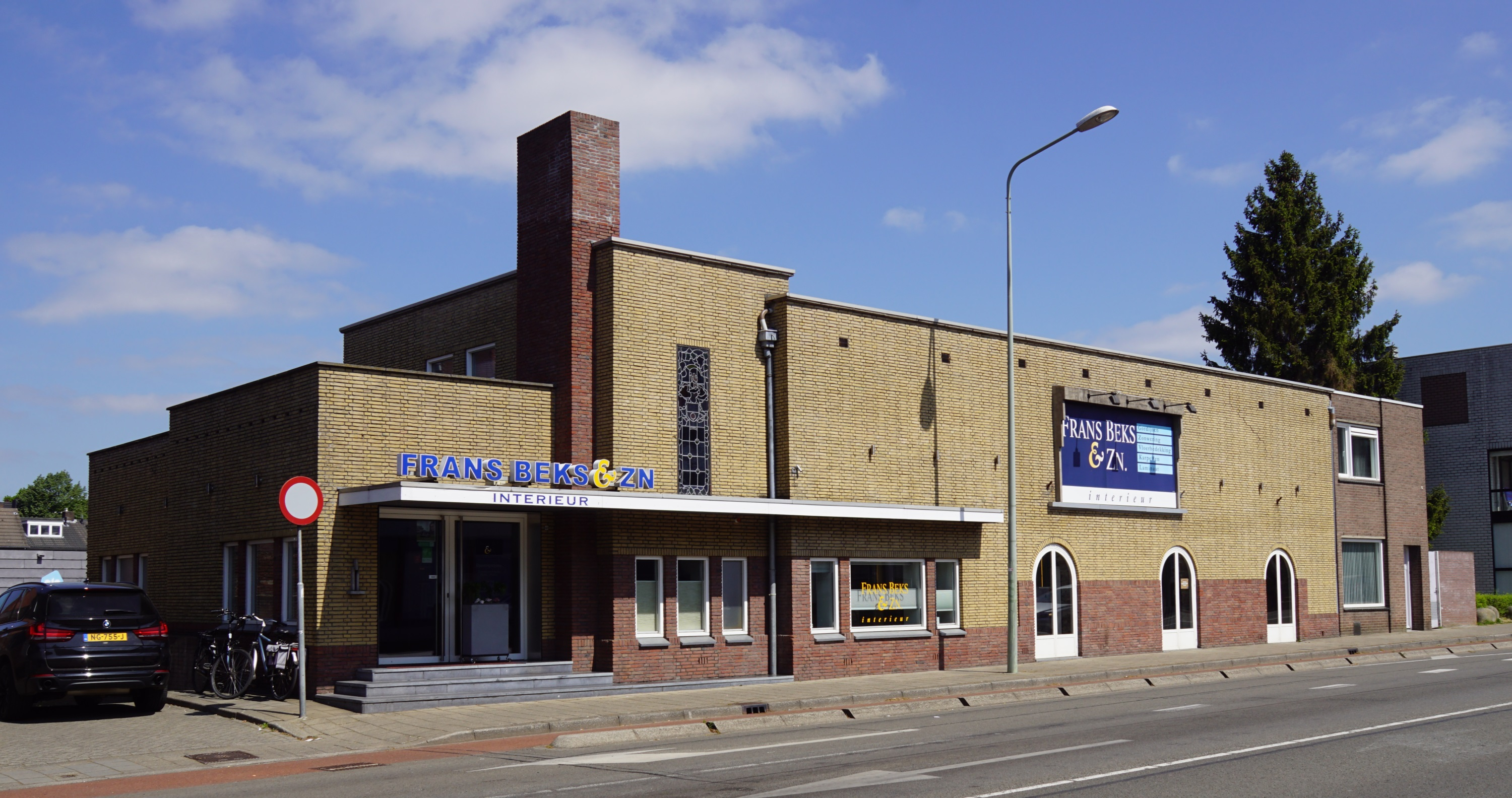 Akersteenweg 49, Maastricht, The Netherlands. Former cinema.